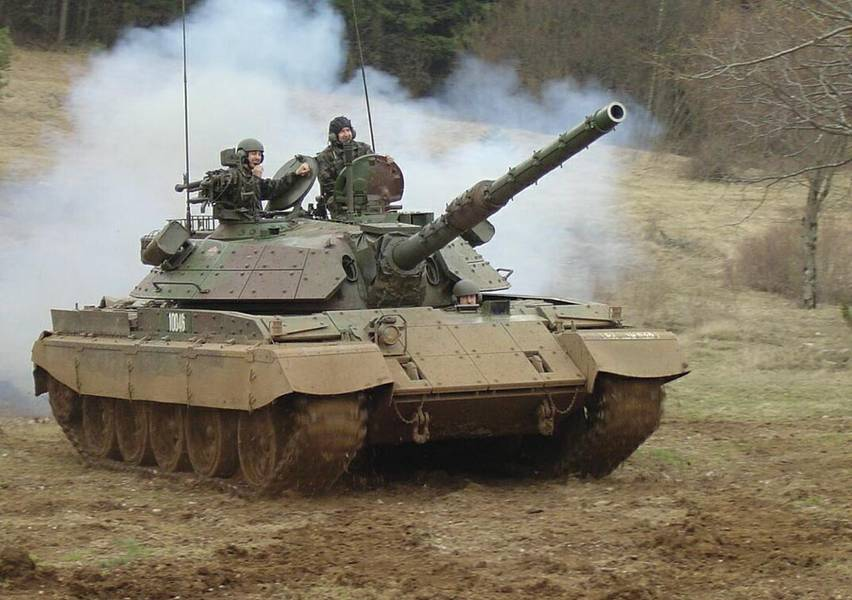 Slovenian Tank M-55 S